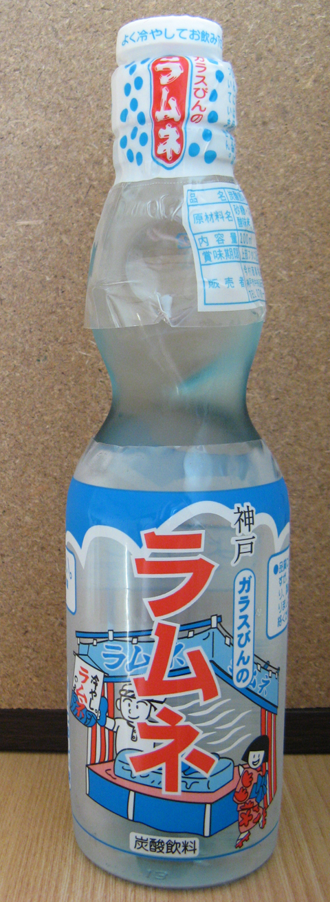 Ramune lemonade bottle from Kobe, Japan.